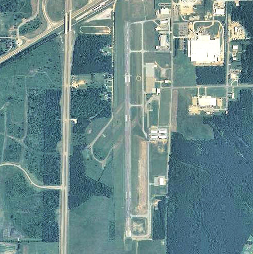 USGS digital orthophoto of George M. Bryan Airport in Mississippi